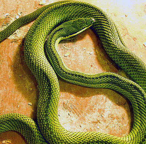 Baron's Green Racer, otherwise known as the Argentine Long Nose Snake. Centro Anaconda Serpentarium, Mendoza, Argentina.